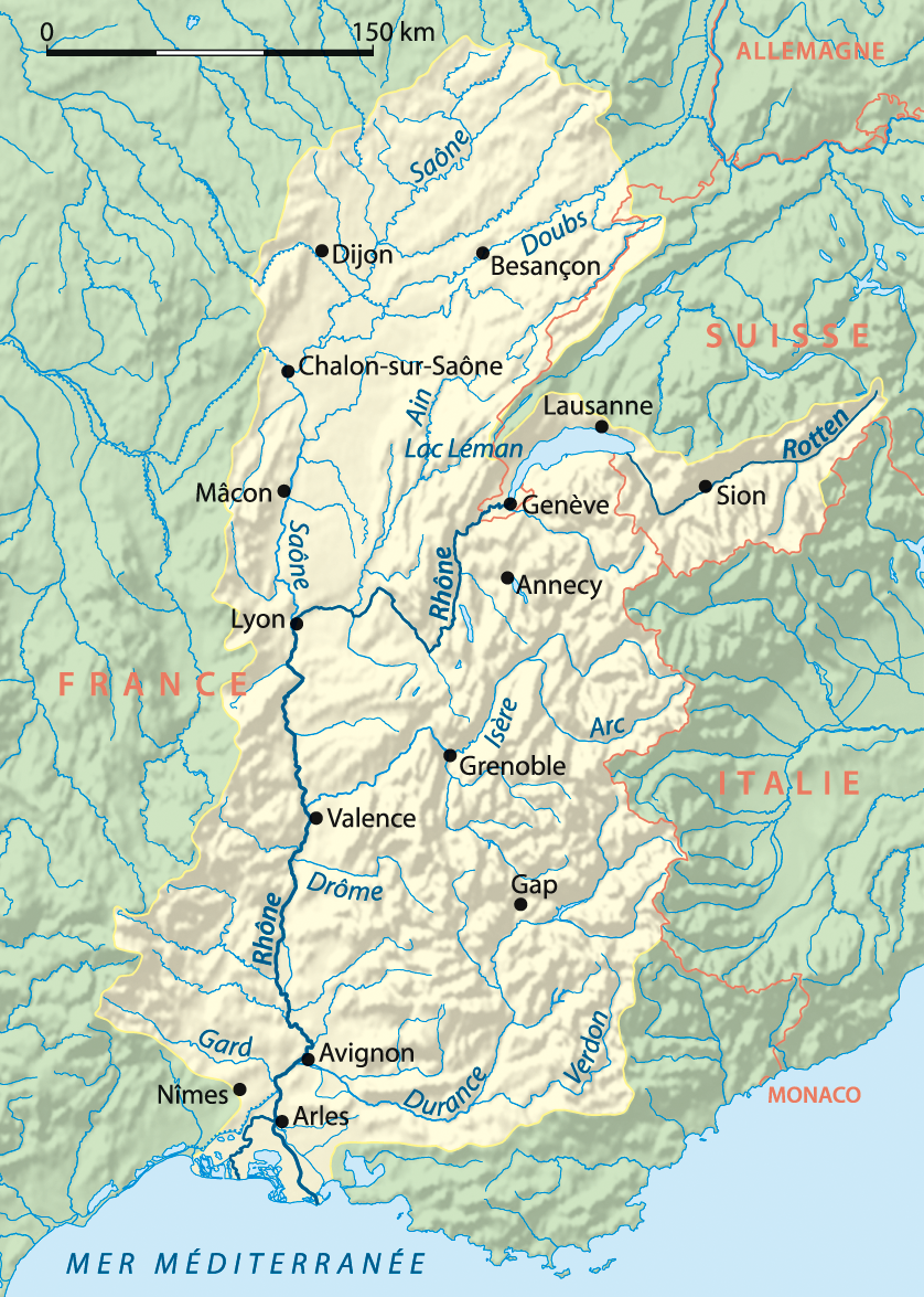 Drainage basin of Rhône River, French version